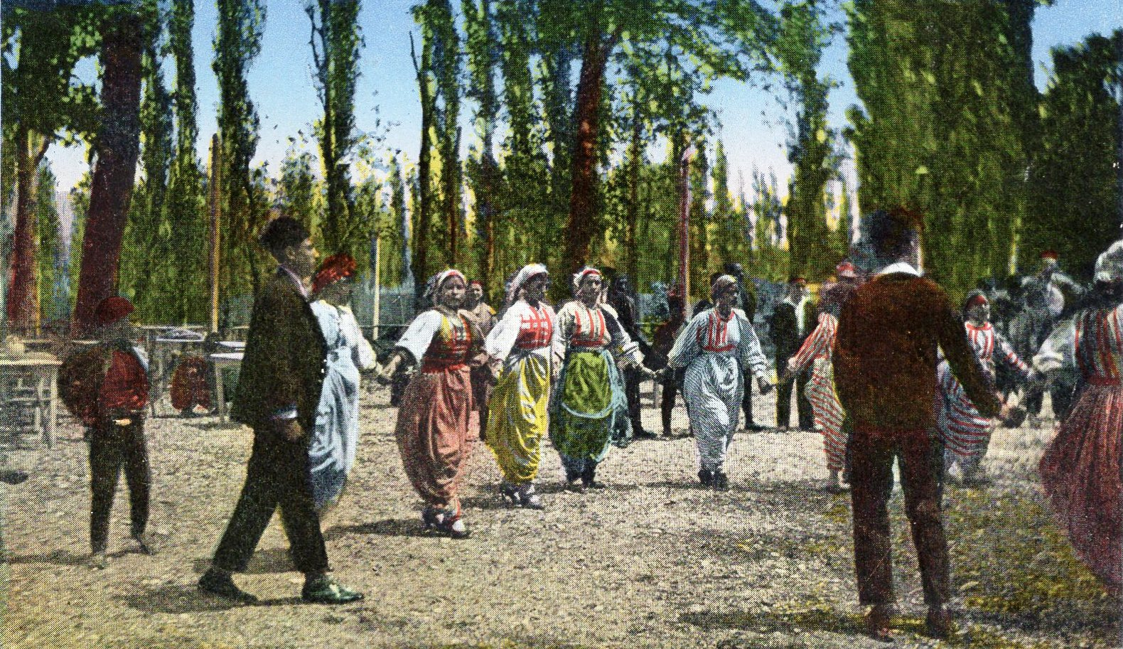 Postcard of Skopje This media file is produced by Wikipedian in Residence in Category:Wikipedian in Residence at DARM in 2016.